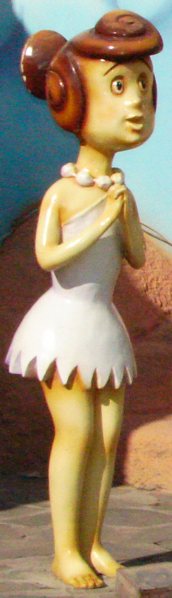 Wilma Flintstone figurine at the Ankara Public Amusement Park losslessly cropped from original File:Harikalar_Diyari_Flintstones_06018_nevit.jpg